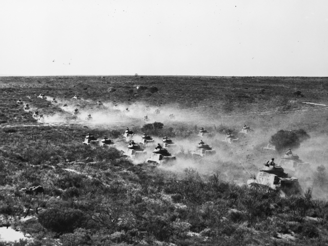 AWM Caption: Members of 2/10 Armoured Regiment, equipped with American General Grant M3 medium tanks practising night movement formations at Mingenew, WA